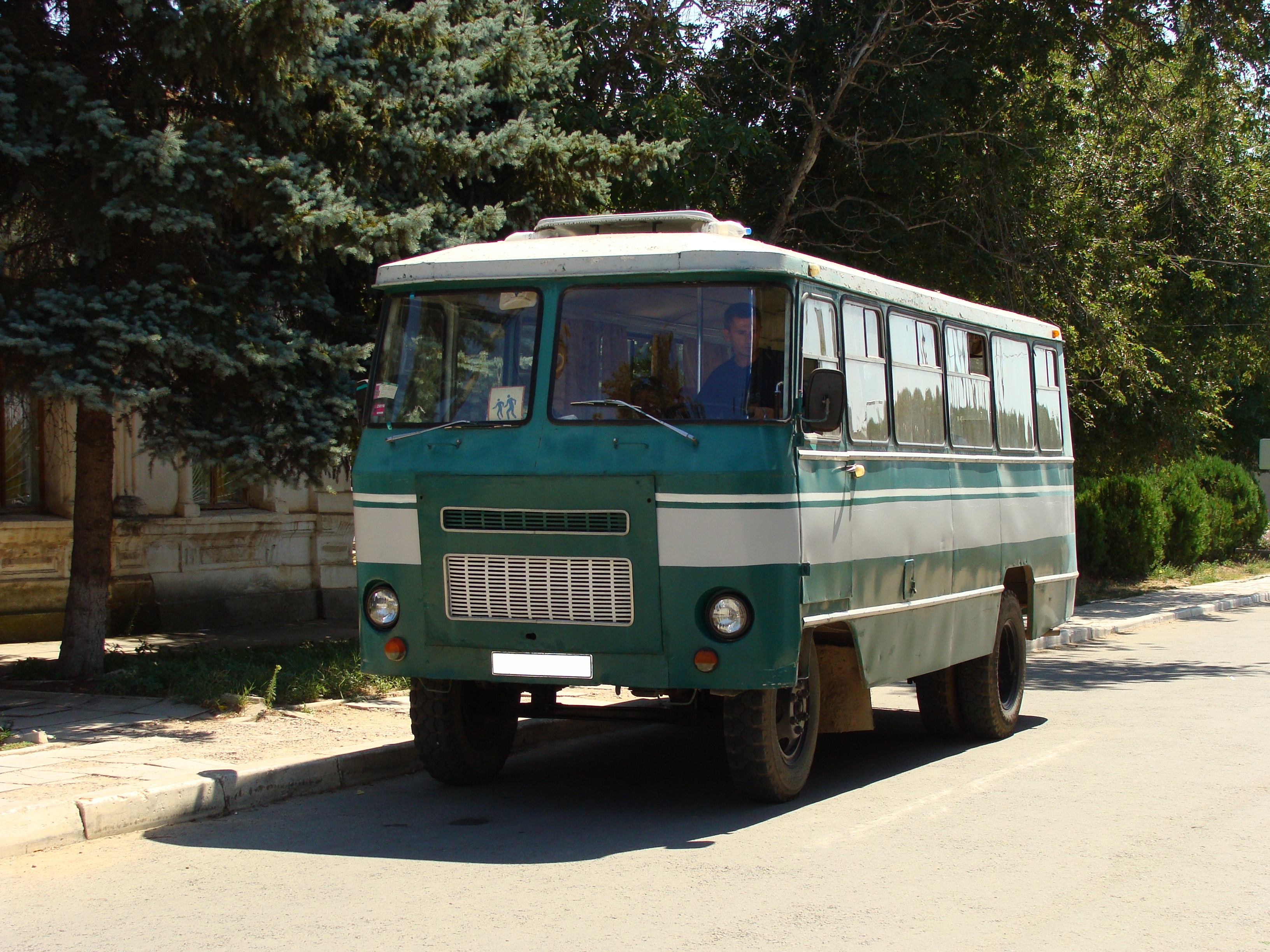 Kuban G1A1-02 in Crimea.